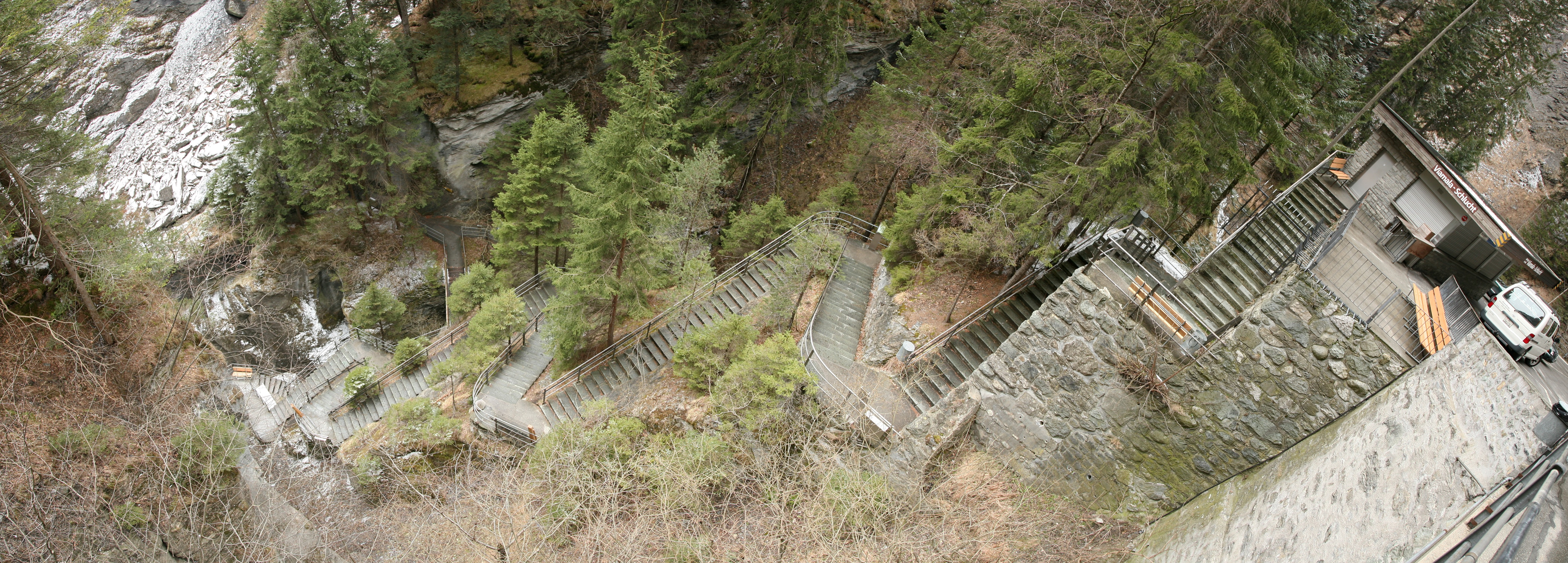 Descent into the Via mala (“evil road”), a gorge near Thusis, Switzerland.